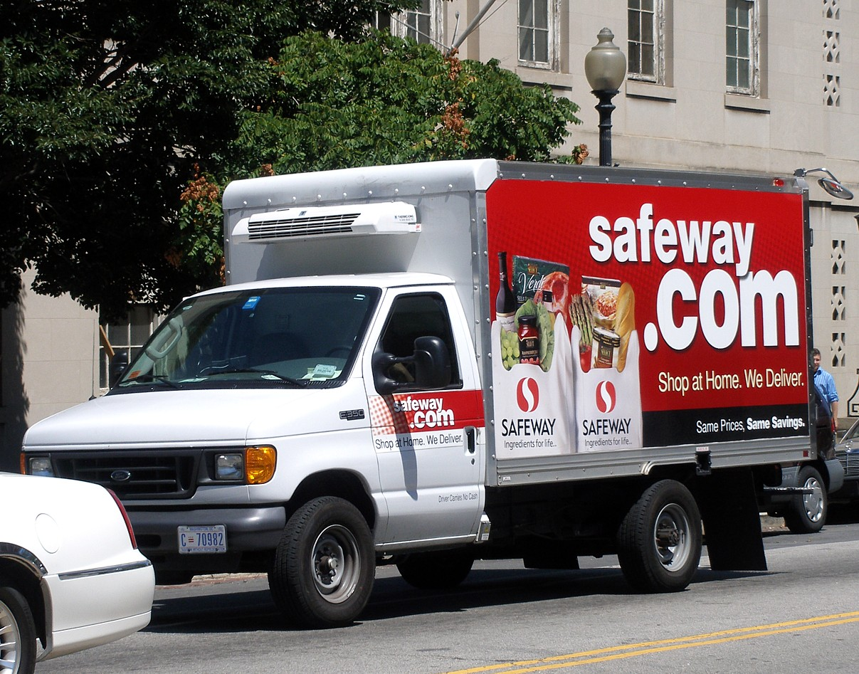 A delivery truck (operated by Safeway Inc.) seen in Washington